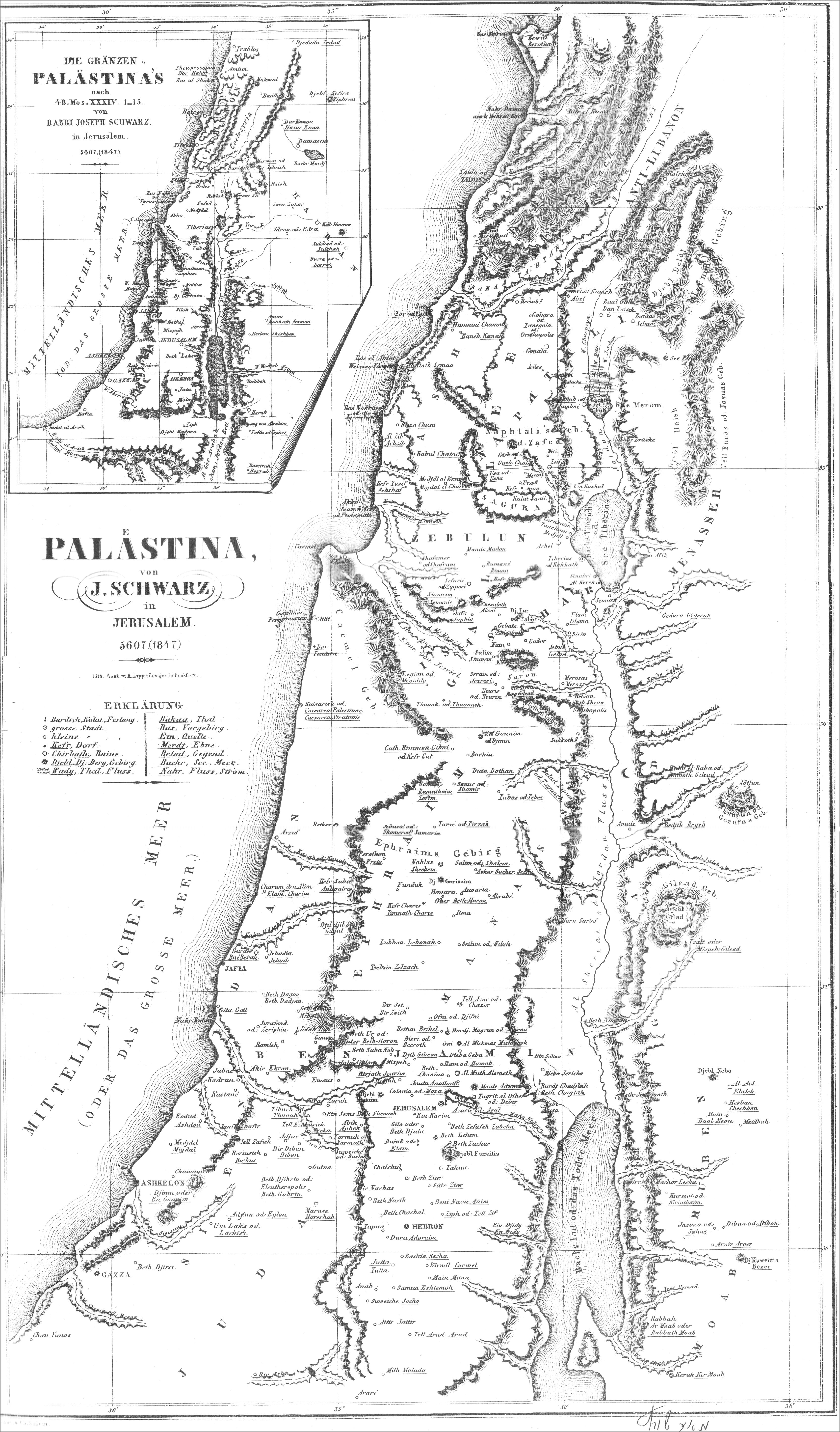 Israel map drawn by Rabbi Joseph Schwarz at 1847. Under the auspices of Professor Meir Schwarz (family member of rabbi Joseph Schwarz) From Jerusalem, Israel.